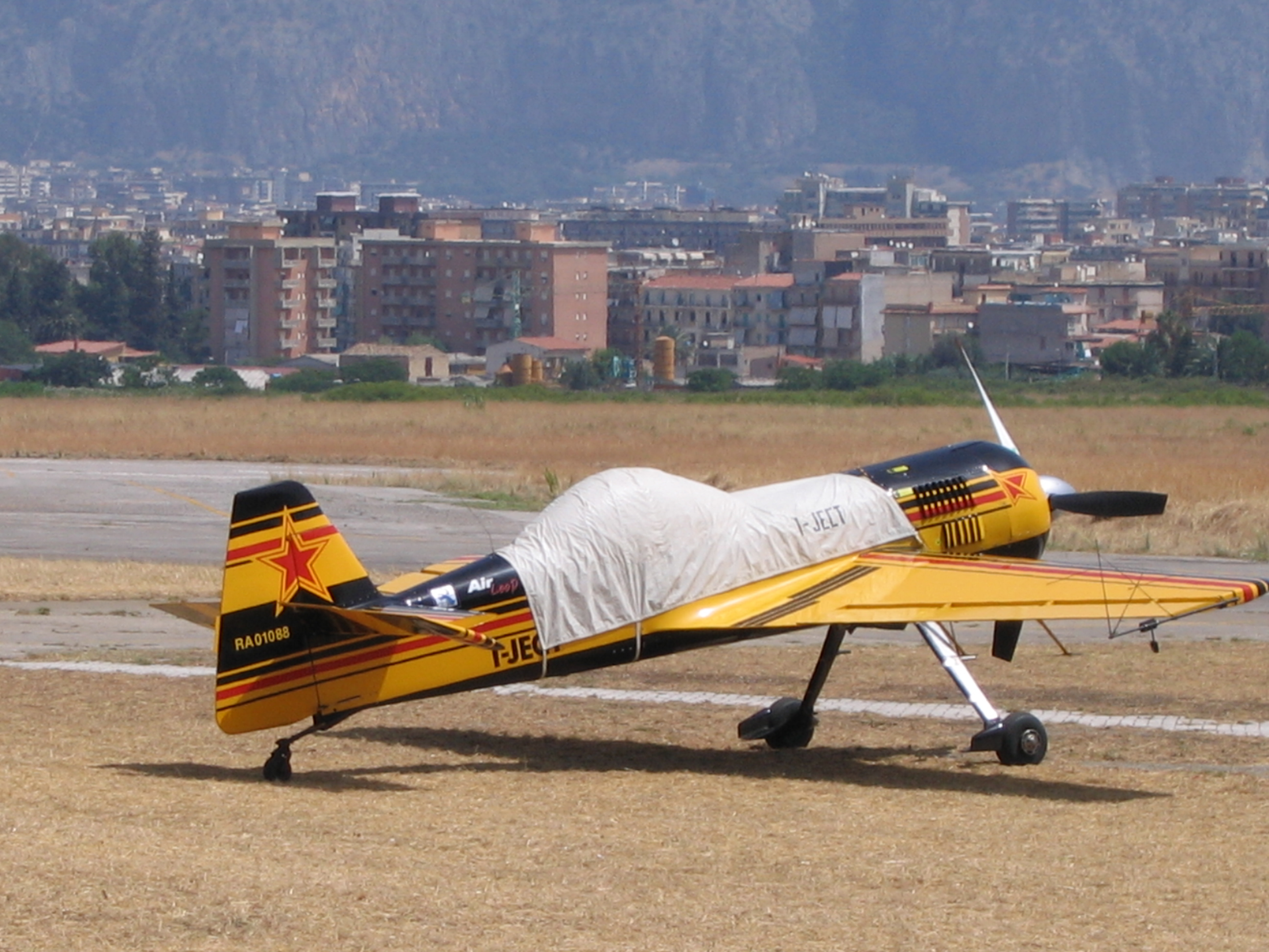 Sukhoi Su-31 at Palermo-Boccadifalco Airport